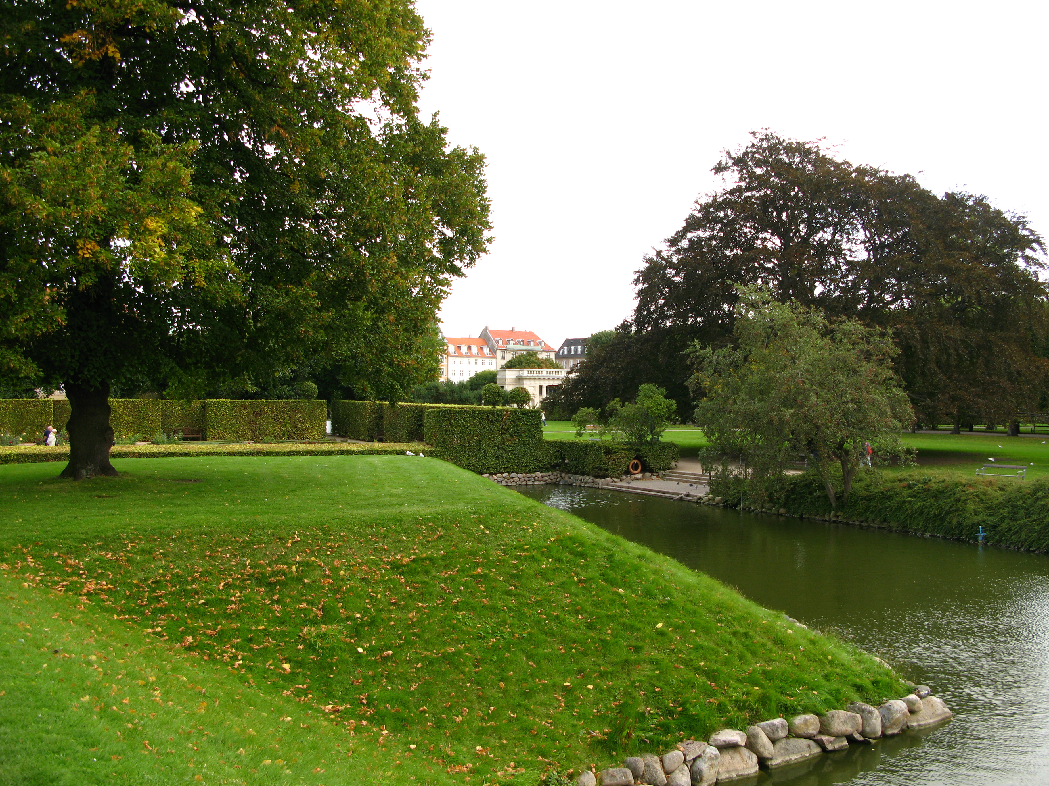 The moat around Rosenborg Castle in Kongens Have in Copenhagen, Denmark